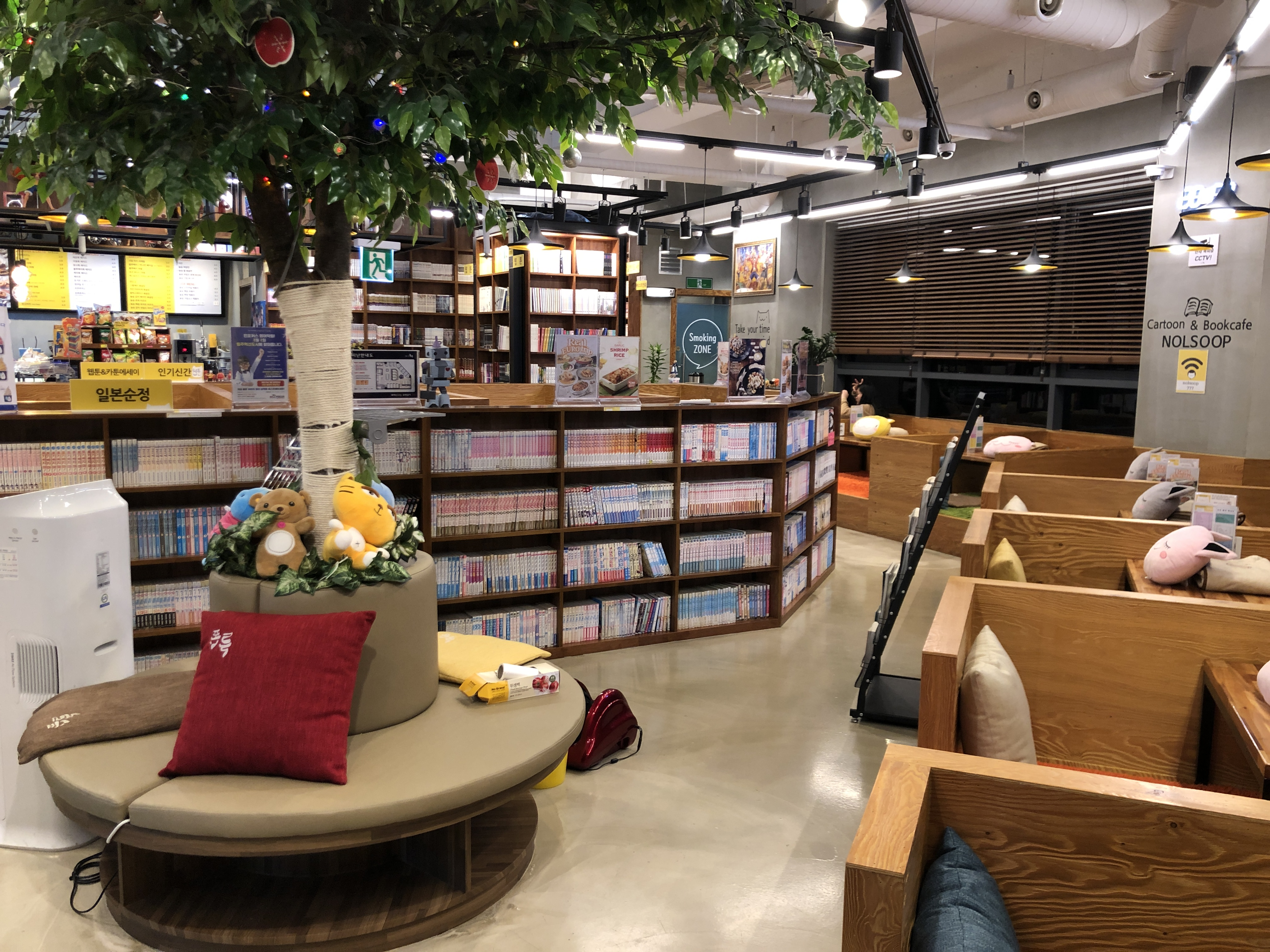 Businesses located in Wonju